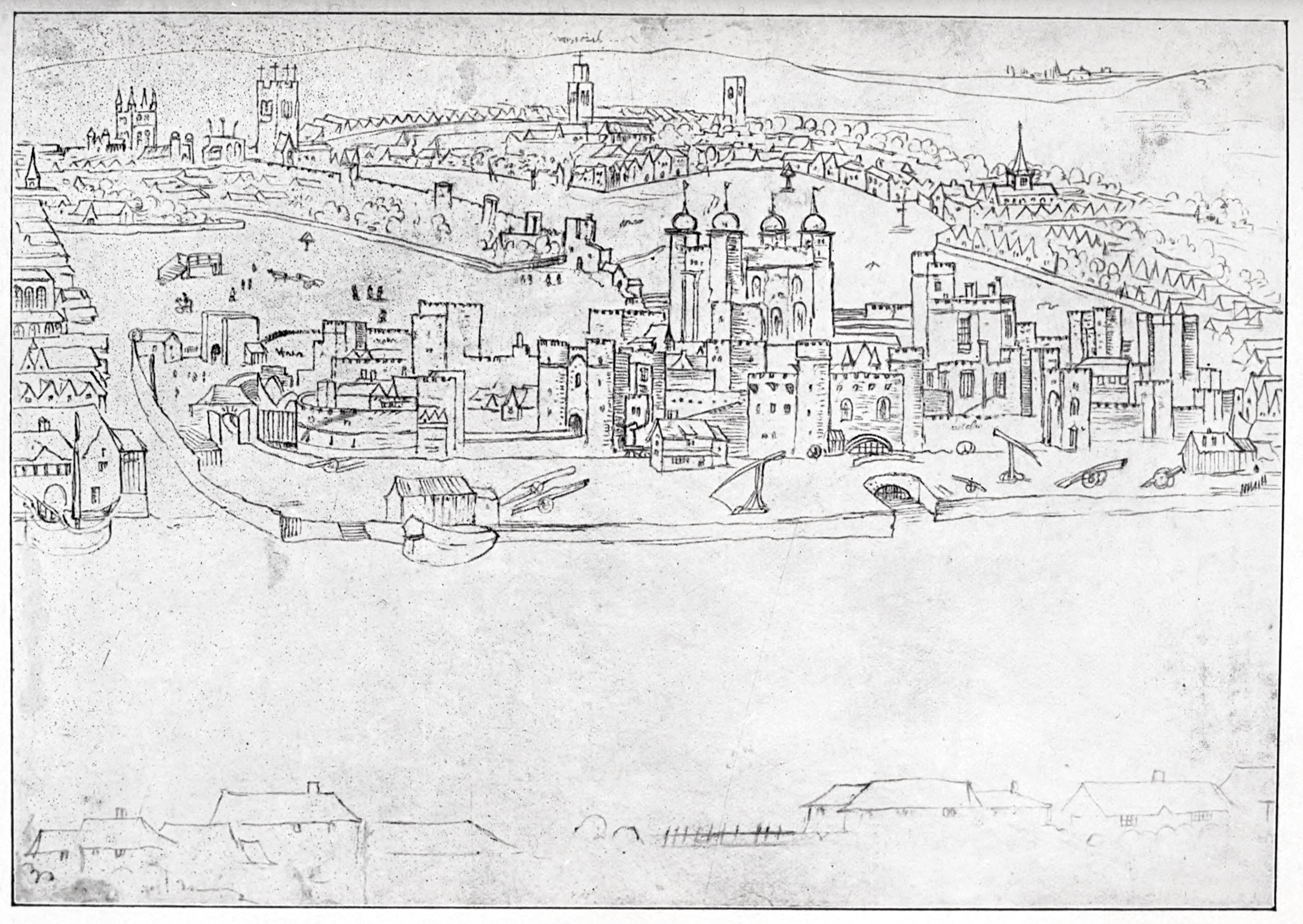 Drawing by Antony van den Wyngaerde View of London - The Tower of London